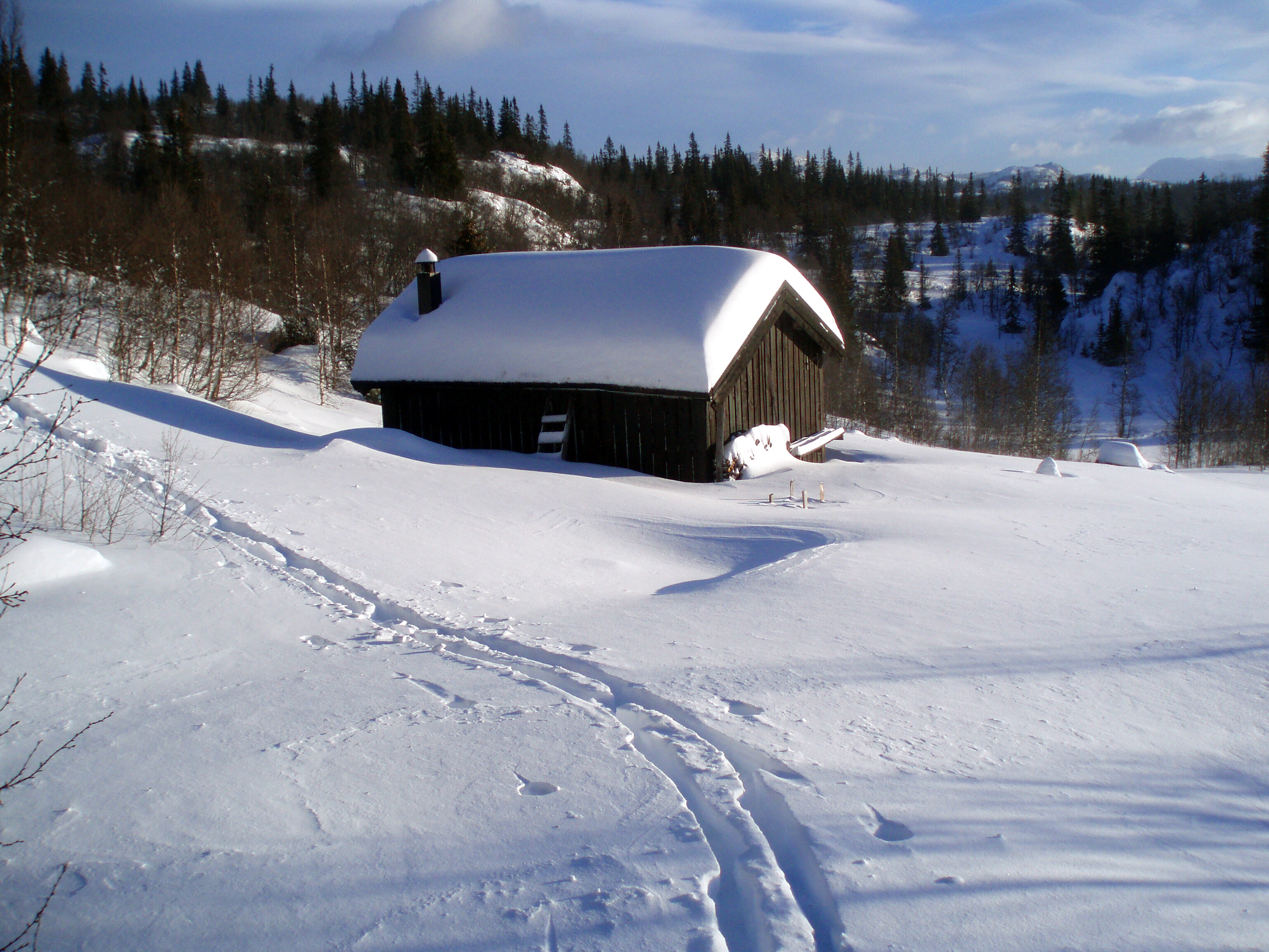 A mountain farm and pasture in the municipality of Seljord, Norway. Farm hut. Summer farming.